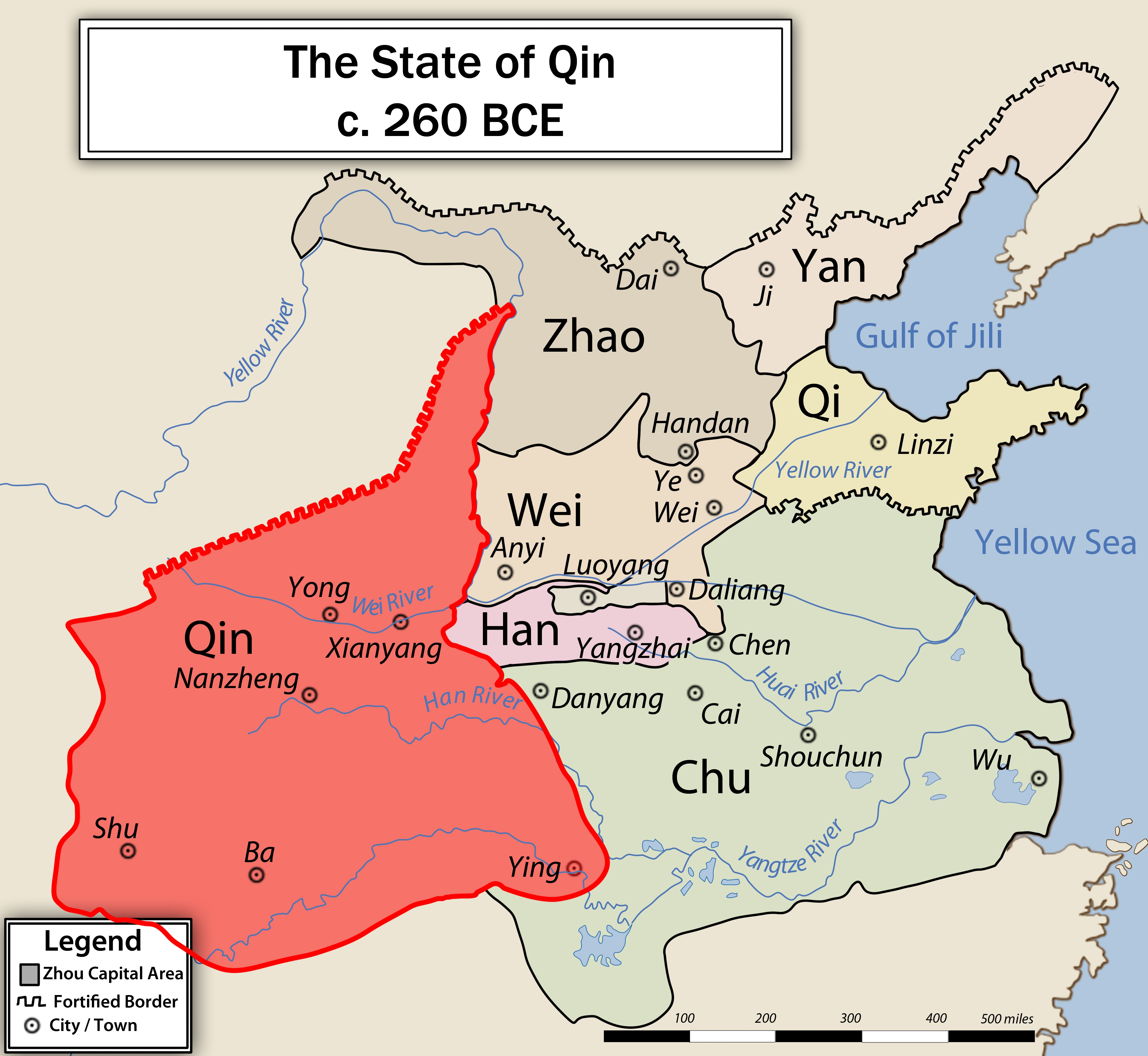 China Map, Qin State, 260BCE